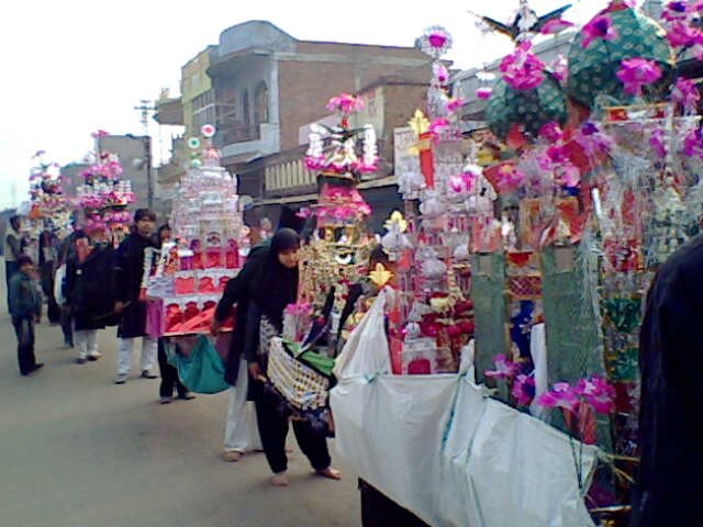 Shia Muslims take out a Ta'ziya procession on day of Ashura in Barabanki, India, Jan, 2009. Muharram is a month of mourning when Shia Muslims recall the seventh-century death of Imam Hussain, grandson of Prophet Mohammad.